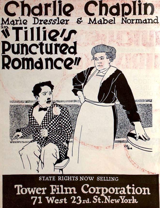 Ad for the 1920 re-release of the American film Tillie's Punctured Romance (1914), page 2818 of the March 27, 1920 Motion Picture News.